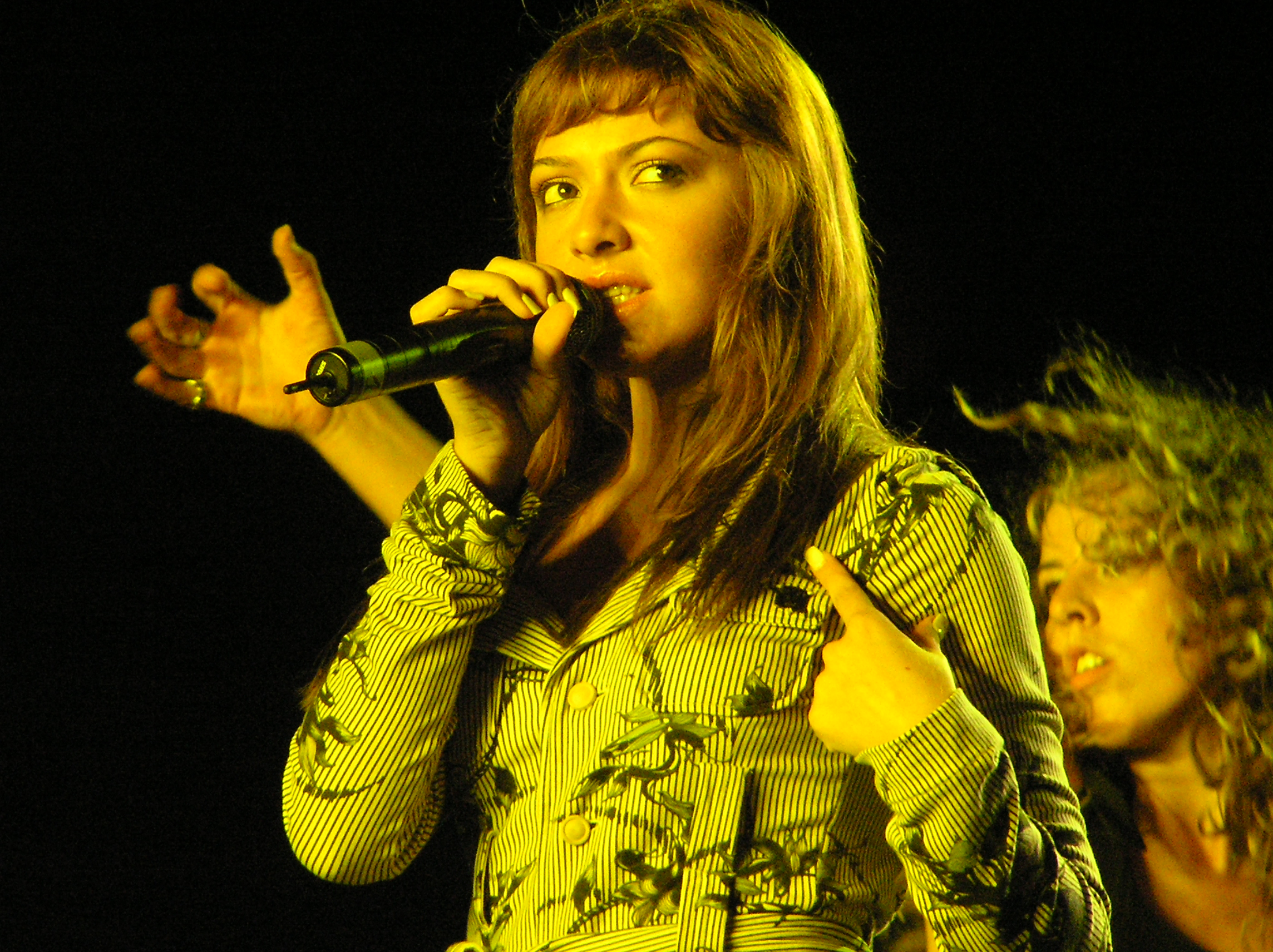 Hadise, concert on 19 August 2006 in Antwerp, Belgium